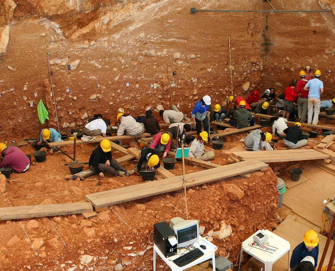 Excavations at the site of Gran Dolina, in Atapuerca (Spain), during 2008. Panoramic photography formed using 3 individual photographies with Hugin software. TD-10 archaeological level is being excavated where the most of the people are. It is a Homo heidelbergensis camp. Under the plank, we can observe a woman with red sweatshirt excavating TD-6 archaeological level, where were found the first remains of Homo antecessor.